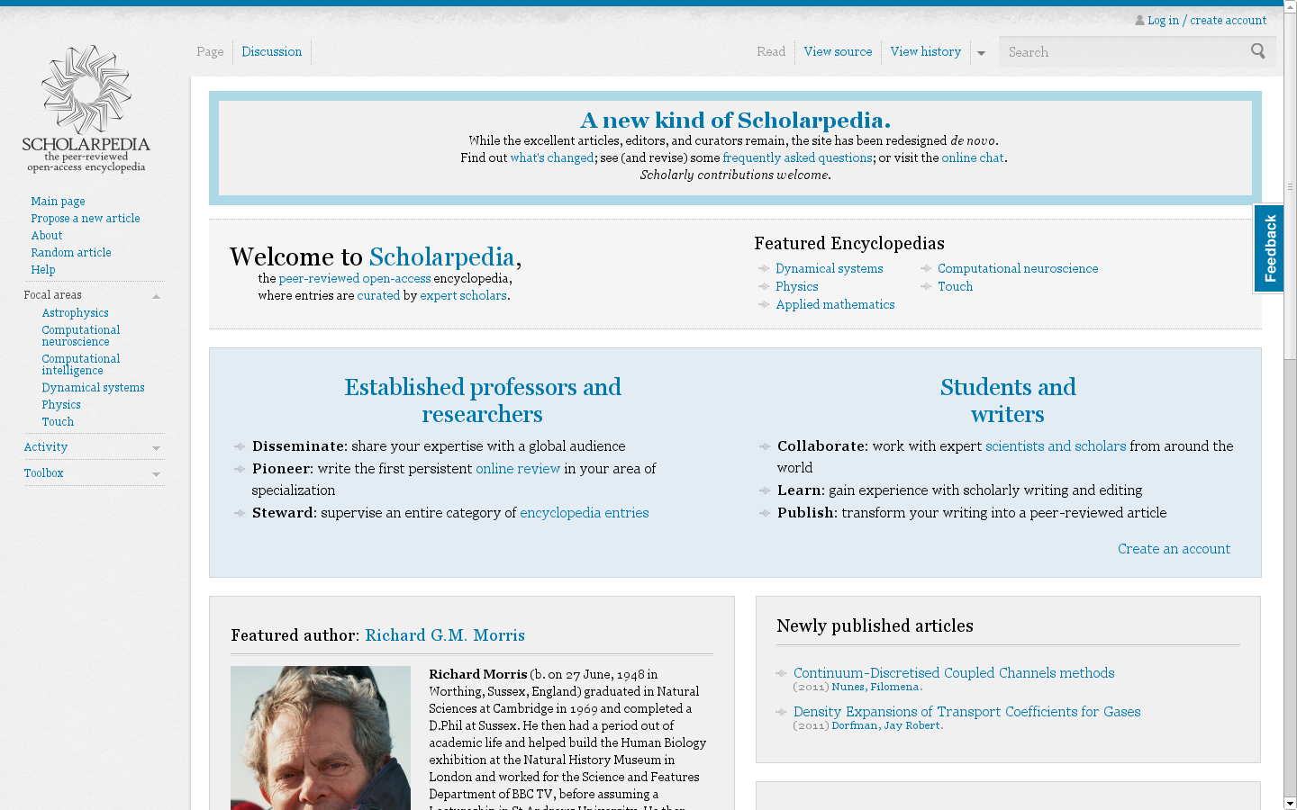 Scholarpedia main page screenshot